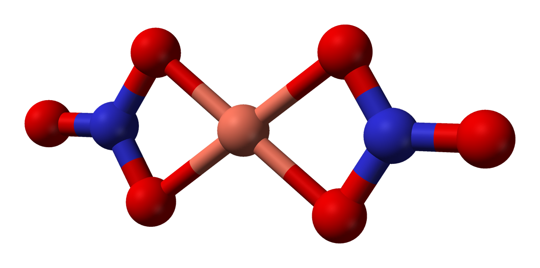 Ball-and-stick model of the copper(II) nitrate monomer, Cu(NO3)2, in the vapour phase